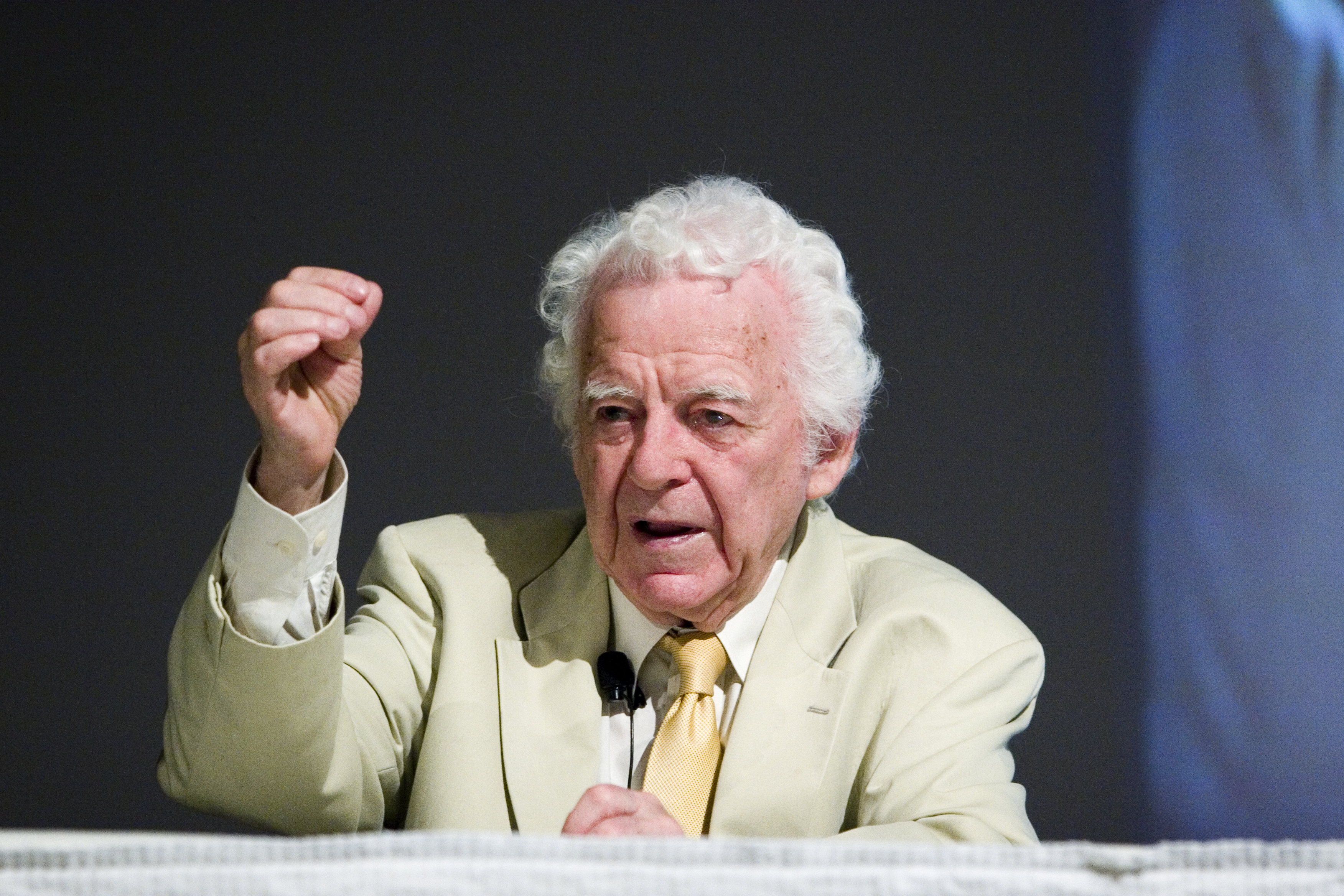 Photograph of Benjamin Creme giving a lecture in New York City, July 26, 2008